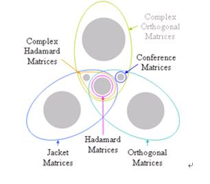 Hierarchy of matrix types